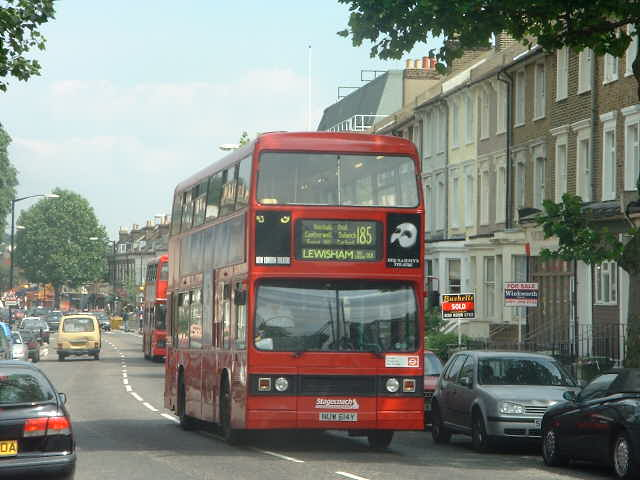 Stagecoach Selkent bus T614 (reg. NUW 614Y), pictured heading south on Lordship Lane, Southwark, operating London Buses route 185 to Lewisham. See the extracted image for the vehicle's full history.